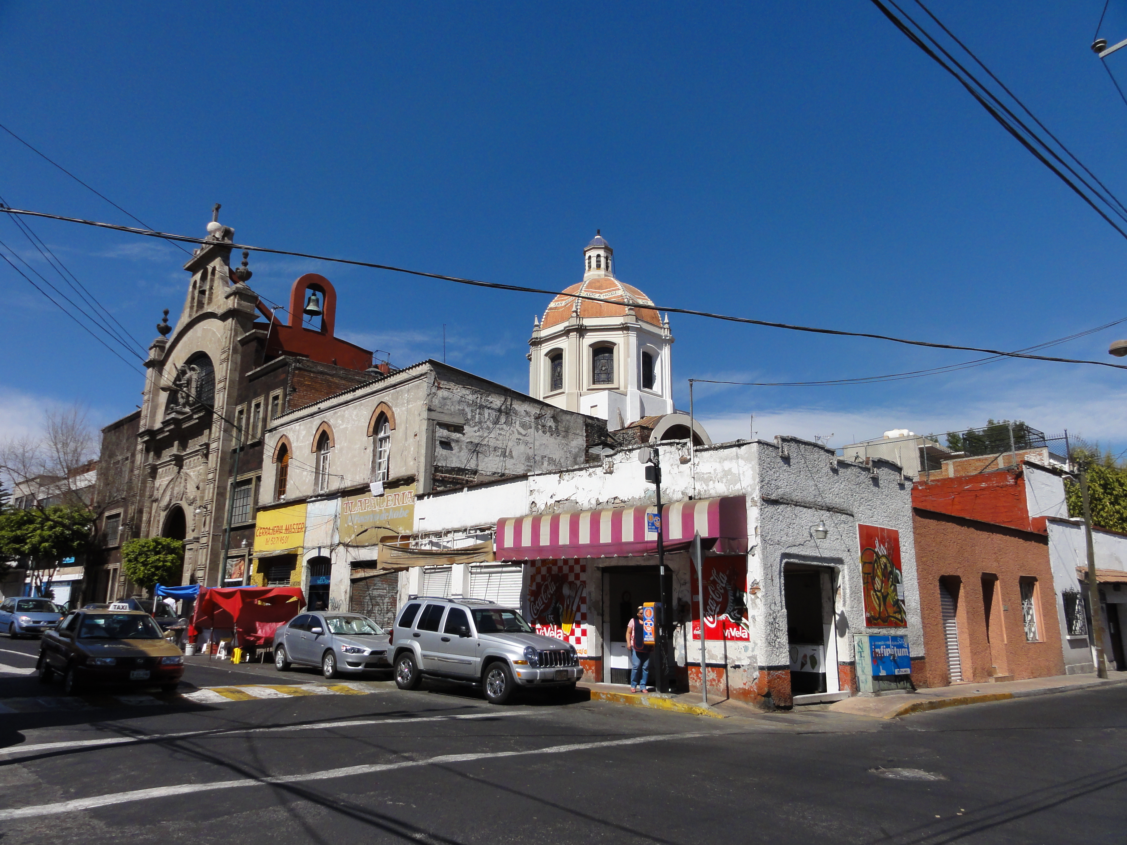 Parroquía de San Miguel Arcángel, colonia San Miguel Chapultepec, delegación Miguel Hidalgo, México, D.F., Mexico